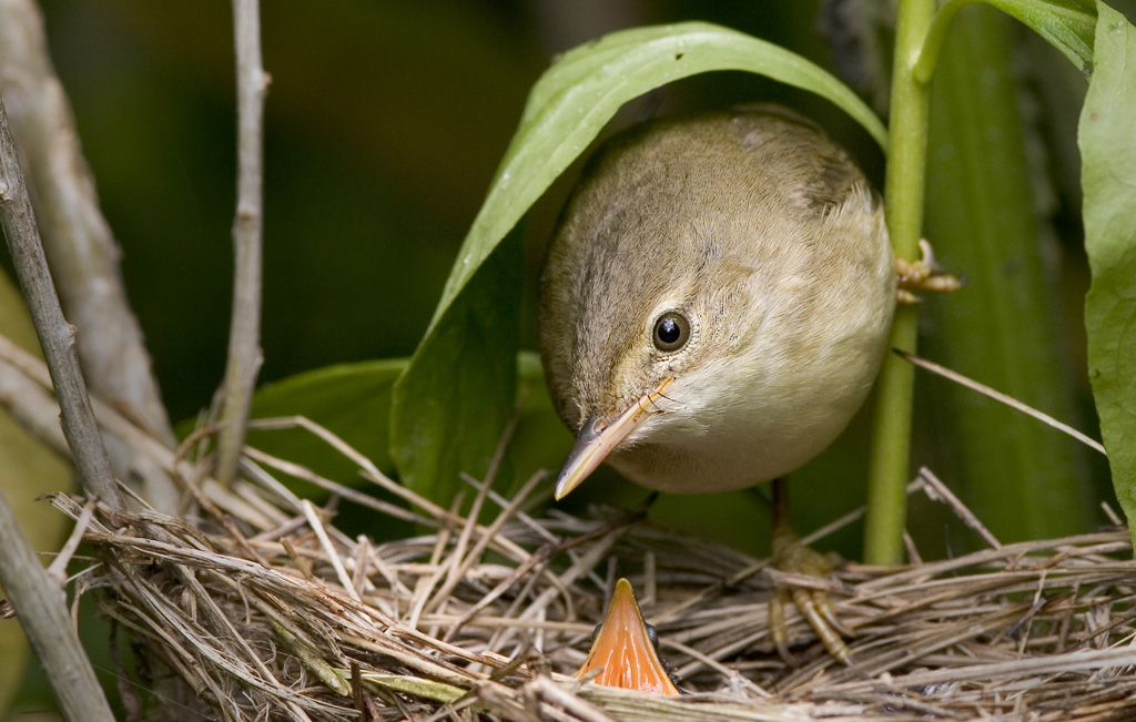 A Marsh Warbler (Acrocephalus palustris) feeding a Cuckoo nestling in its nest